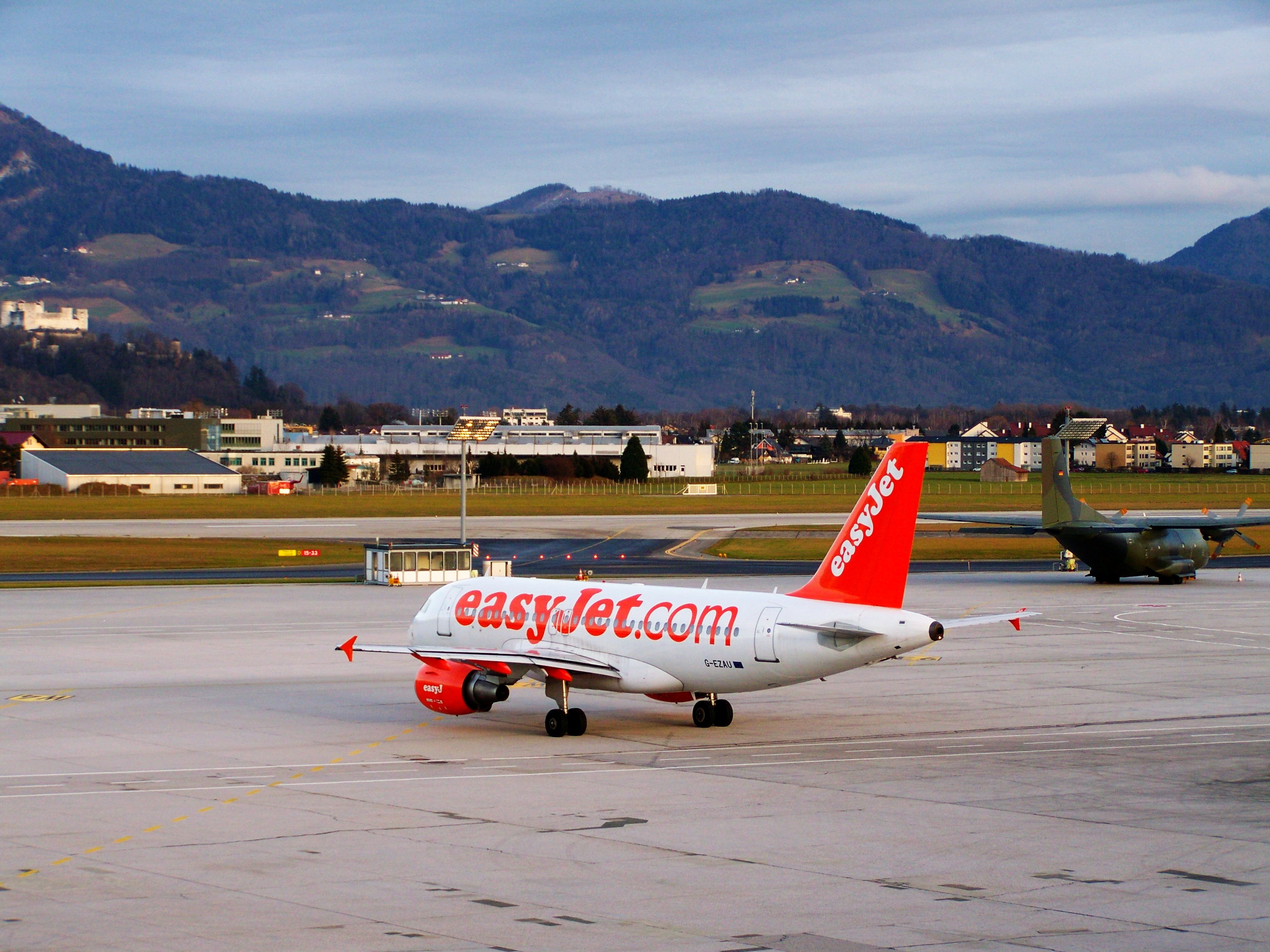 EasyJet in SZG